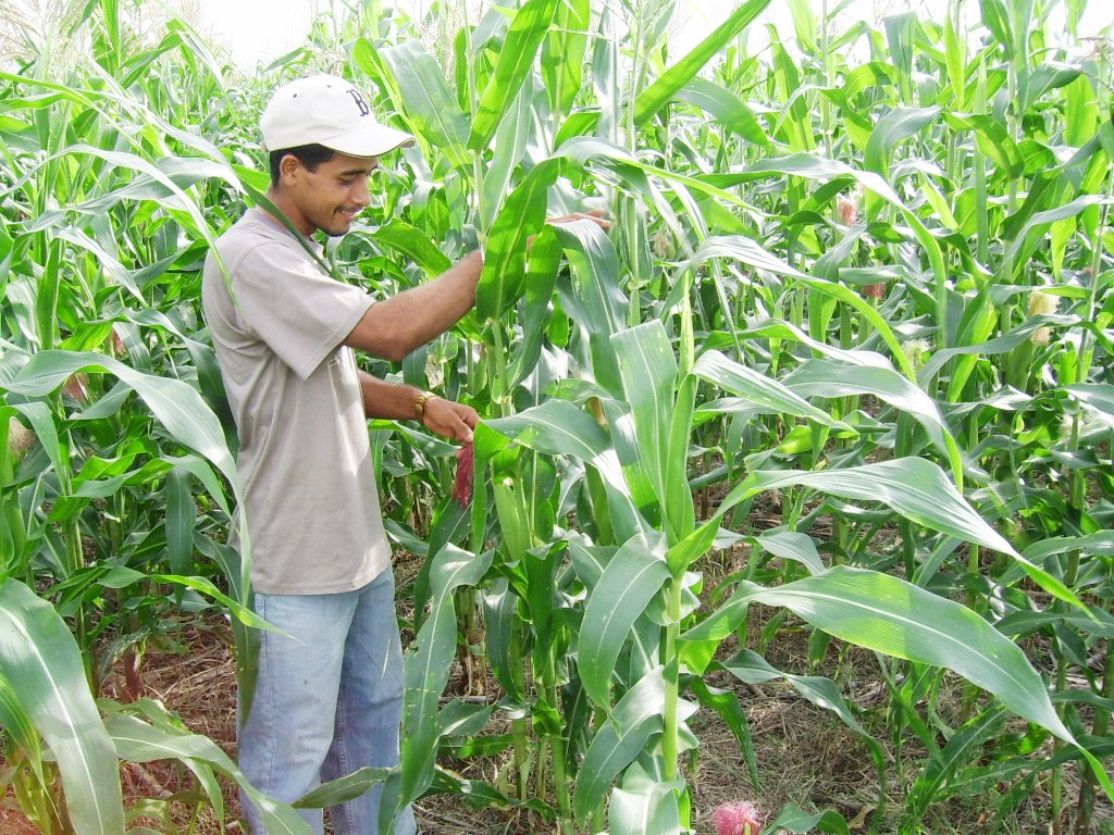 Cultivating corn in Panama